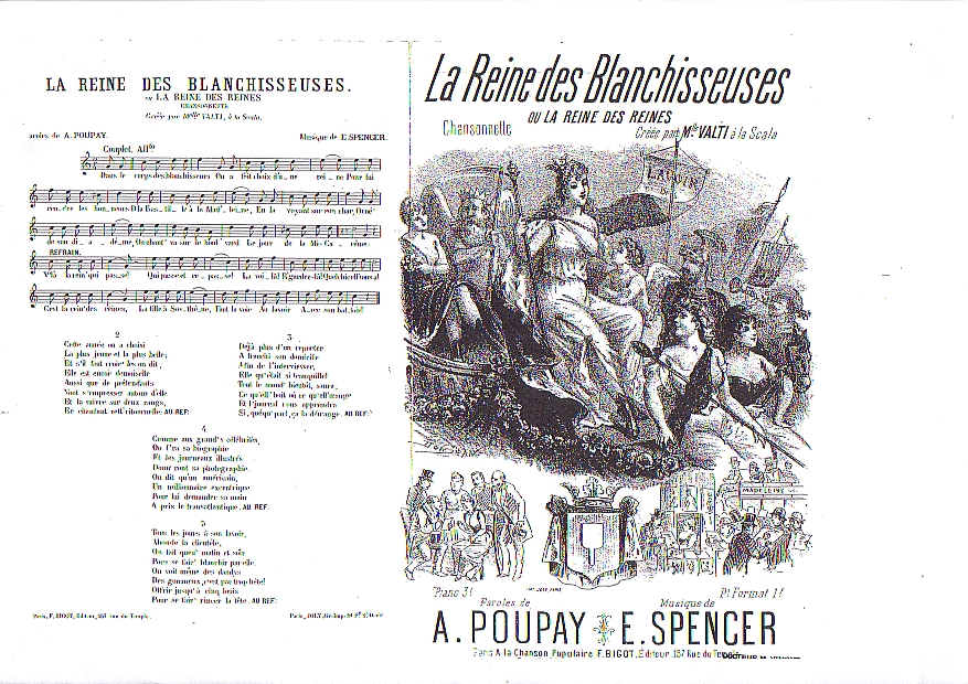 The Queen of washers - song (approximate translation)